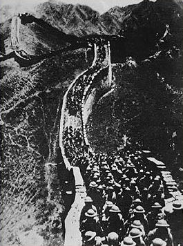 Chinese soldiers march along the Great Wall after the July 7 Incident.